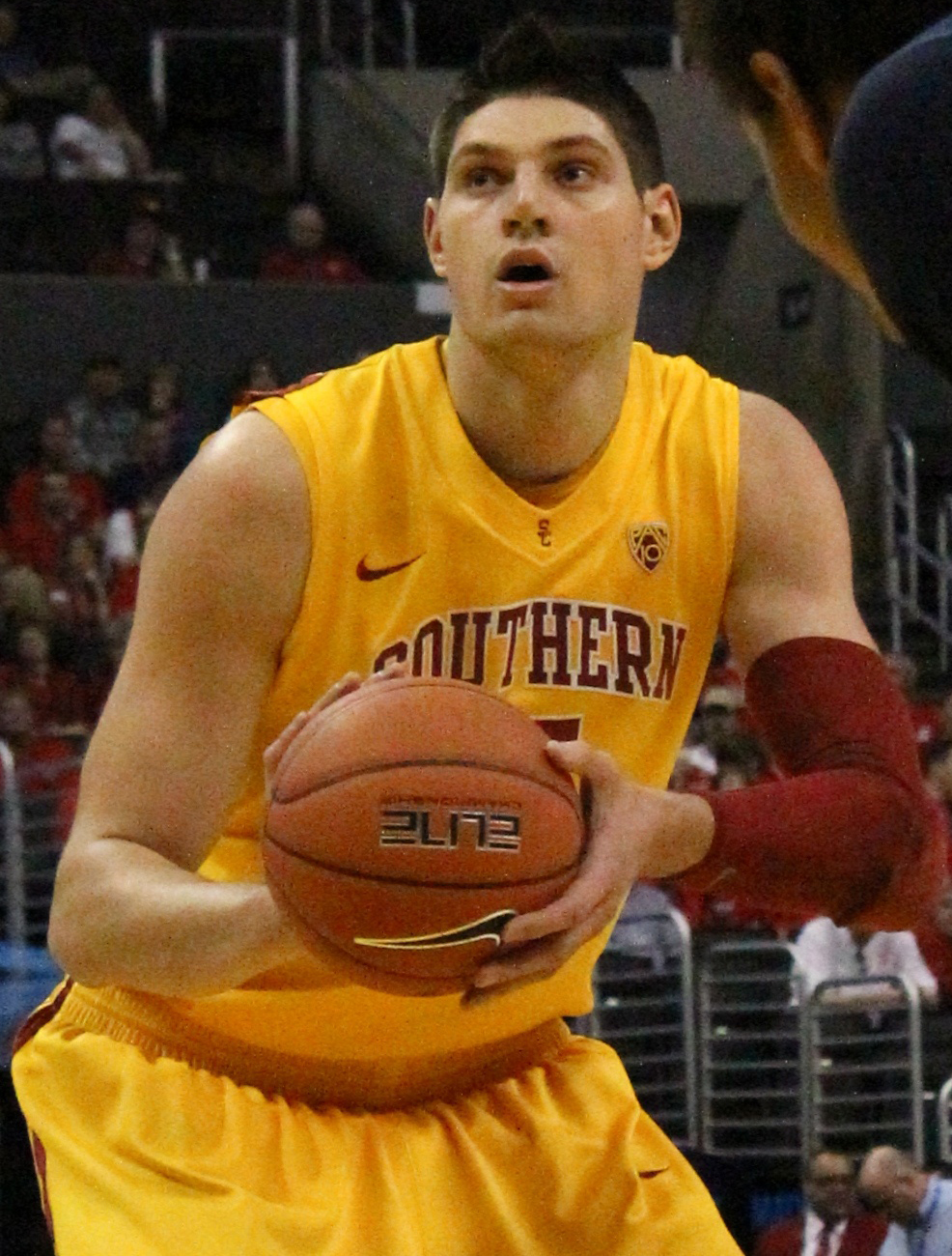 Nikola Vučević playing for USC Trojans